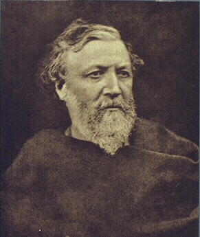 Robert Browning (1865) / print photogravure print 24.6 x 19.4 cm. (trimmed)